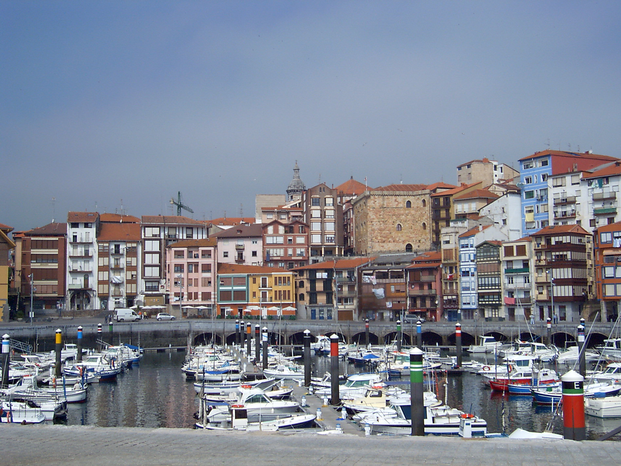 Bermeo´s old port and pleasure port.